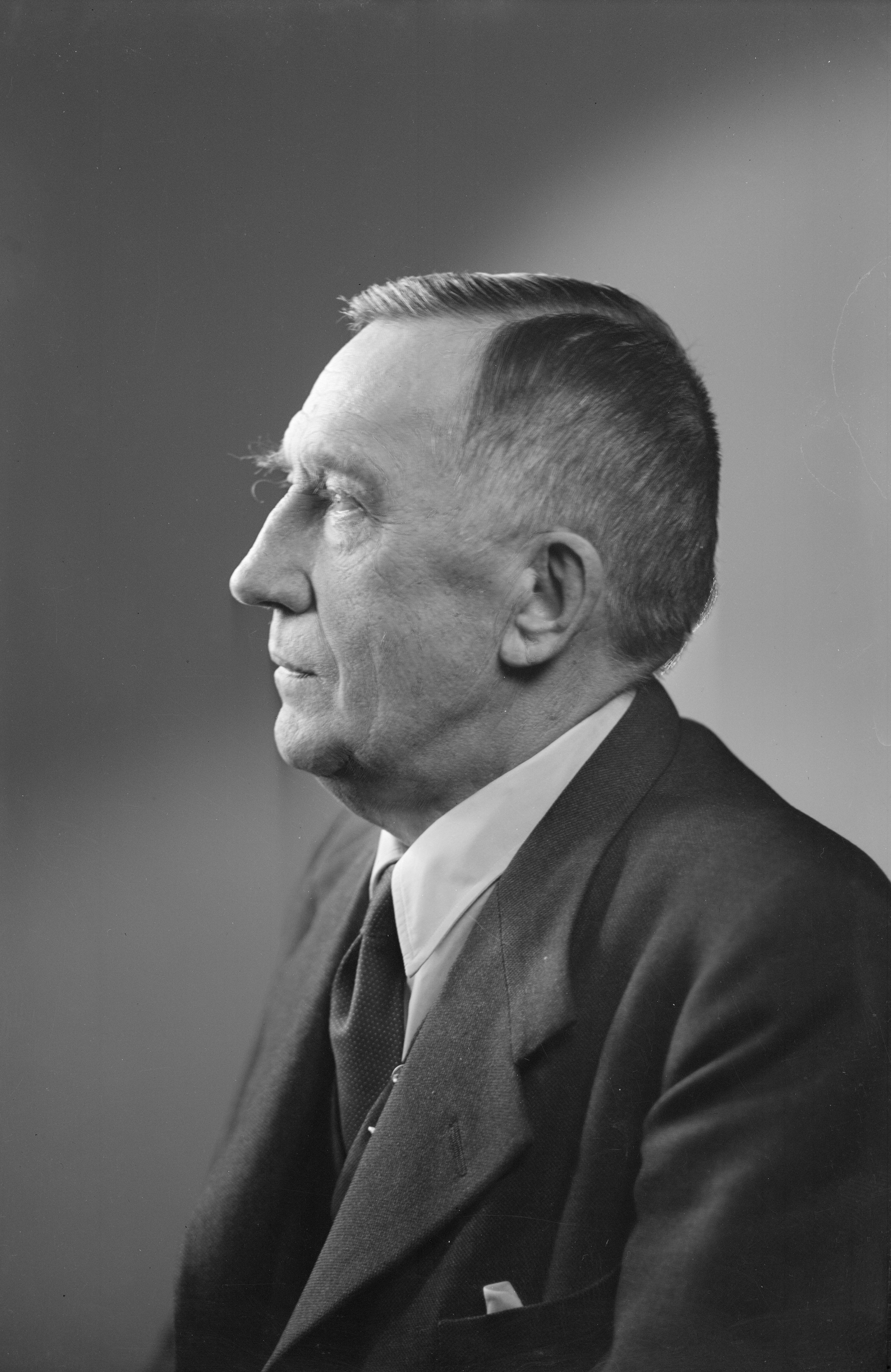 Photograph of the Finnish business executive John Grundström (1877–1953).